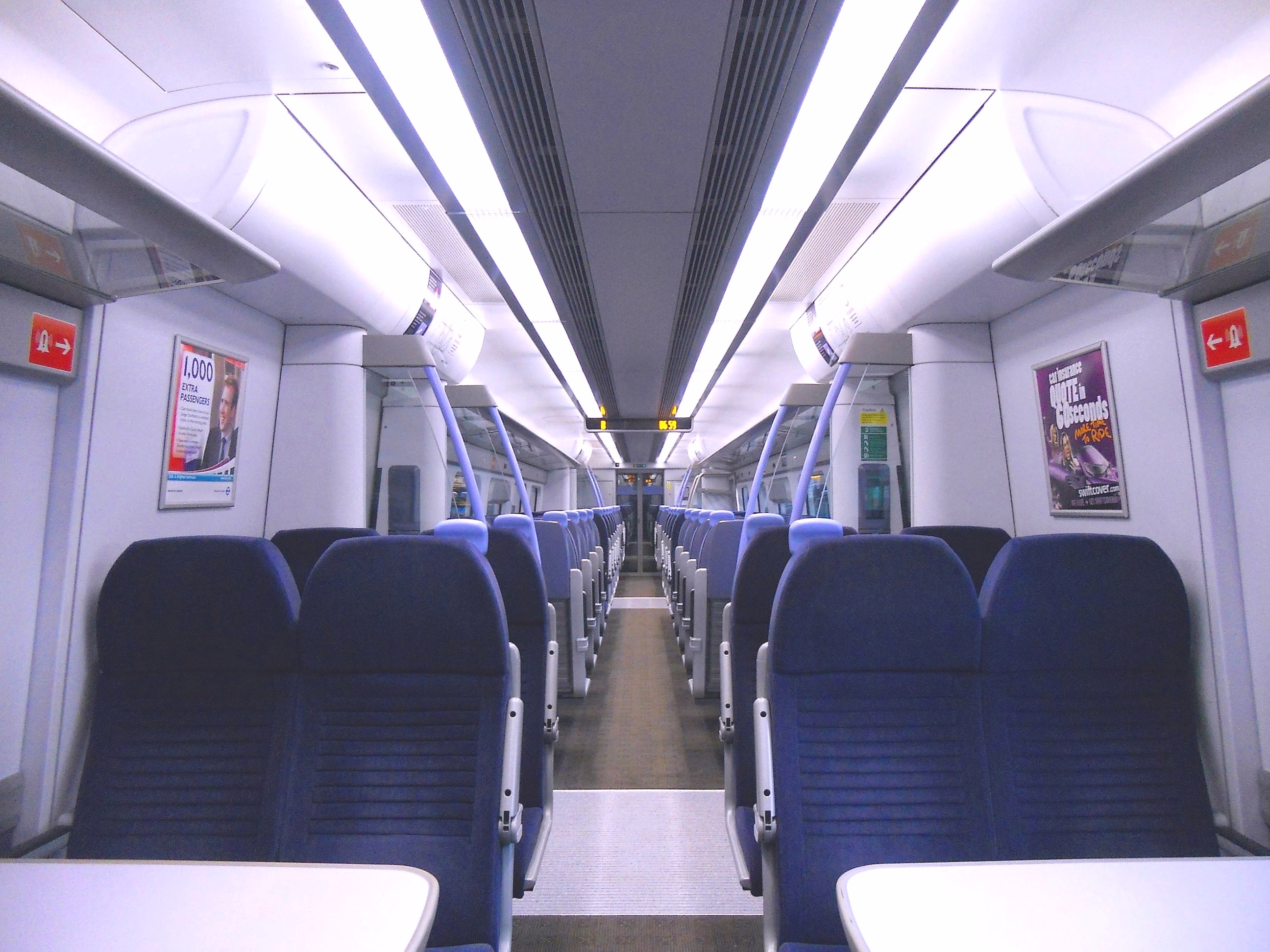 The interior of a Southeastern High Speed Class 395 Javelin